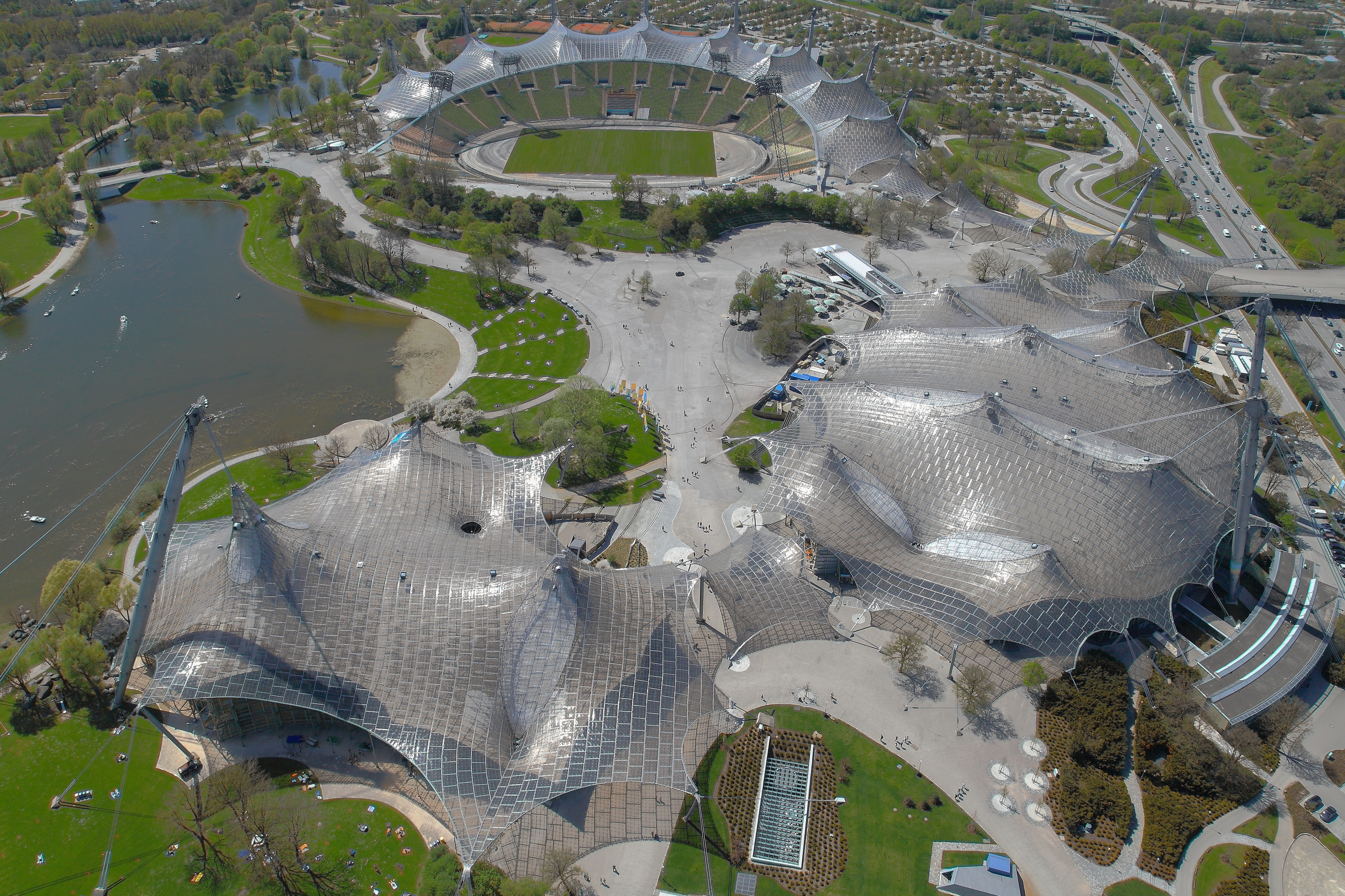 Olympiastadion, Munich, Germany